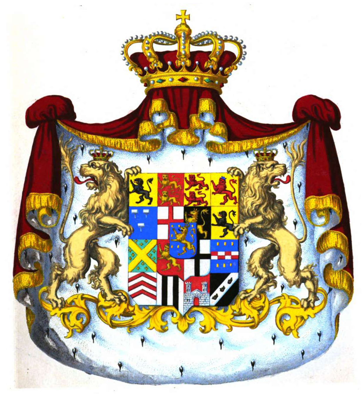 Coat of arms of duchy of Nassau